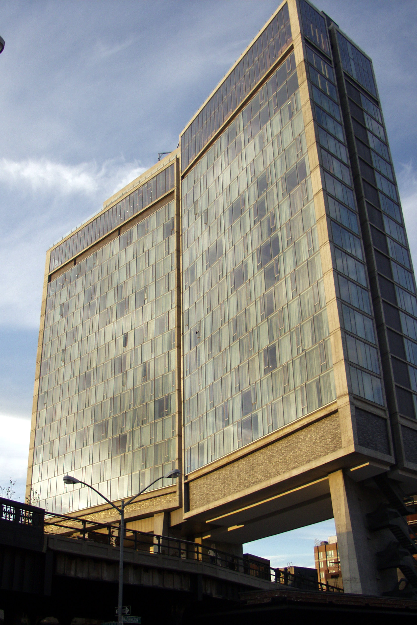 Looking up and north at Standard Hotel from street, near dusk of a sunny day.